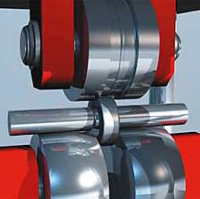 نورد میلگرد